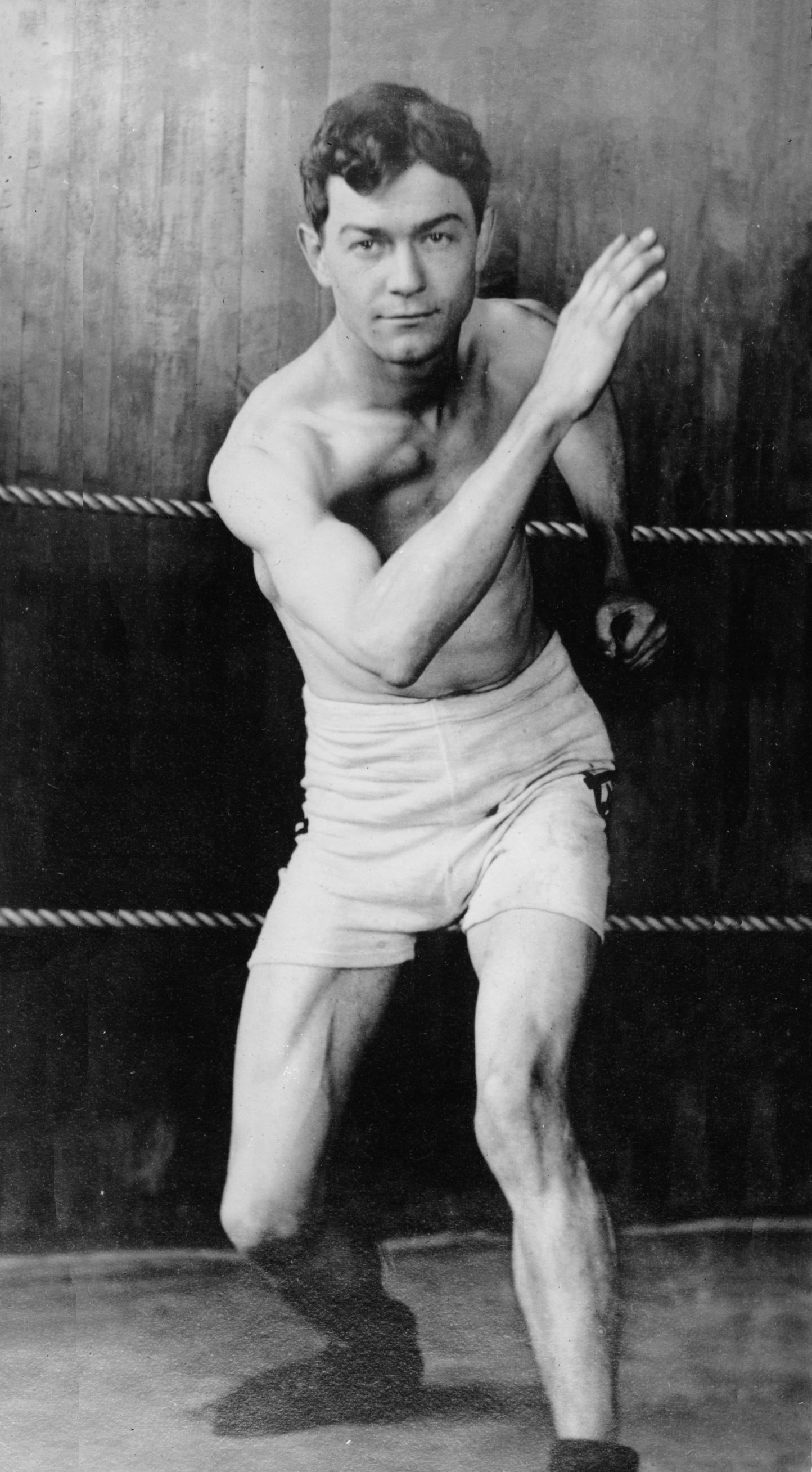 Oliver Kirk, American boxer and two-time Olympic gold medal winner